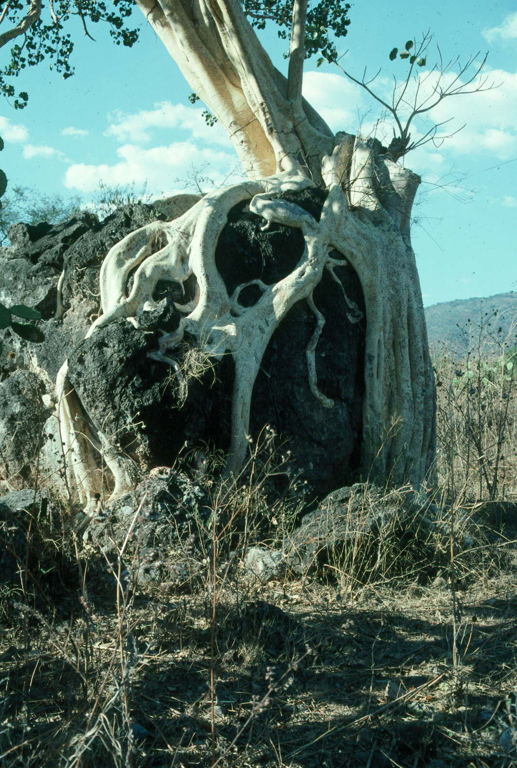 Amate tree growing in near Juxtlahuaca, Guerrero, Mexico. Photo taken in July, 1989.Not home 21:21, 2 May 2007 (UTC)